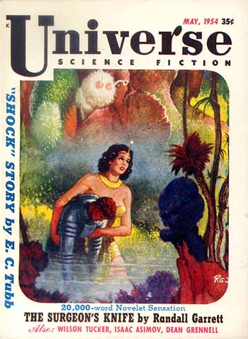 Cover of Universe Science Fiction, May 1954